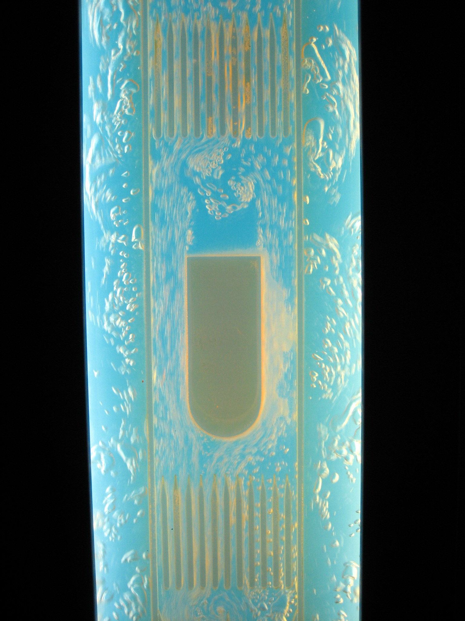 Flow visualization around a block-shaped object visualized with air bubbles, photographed at Shanghai Science and Technology Museum